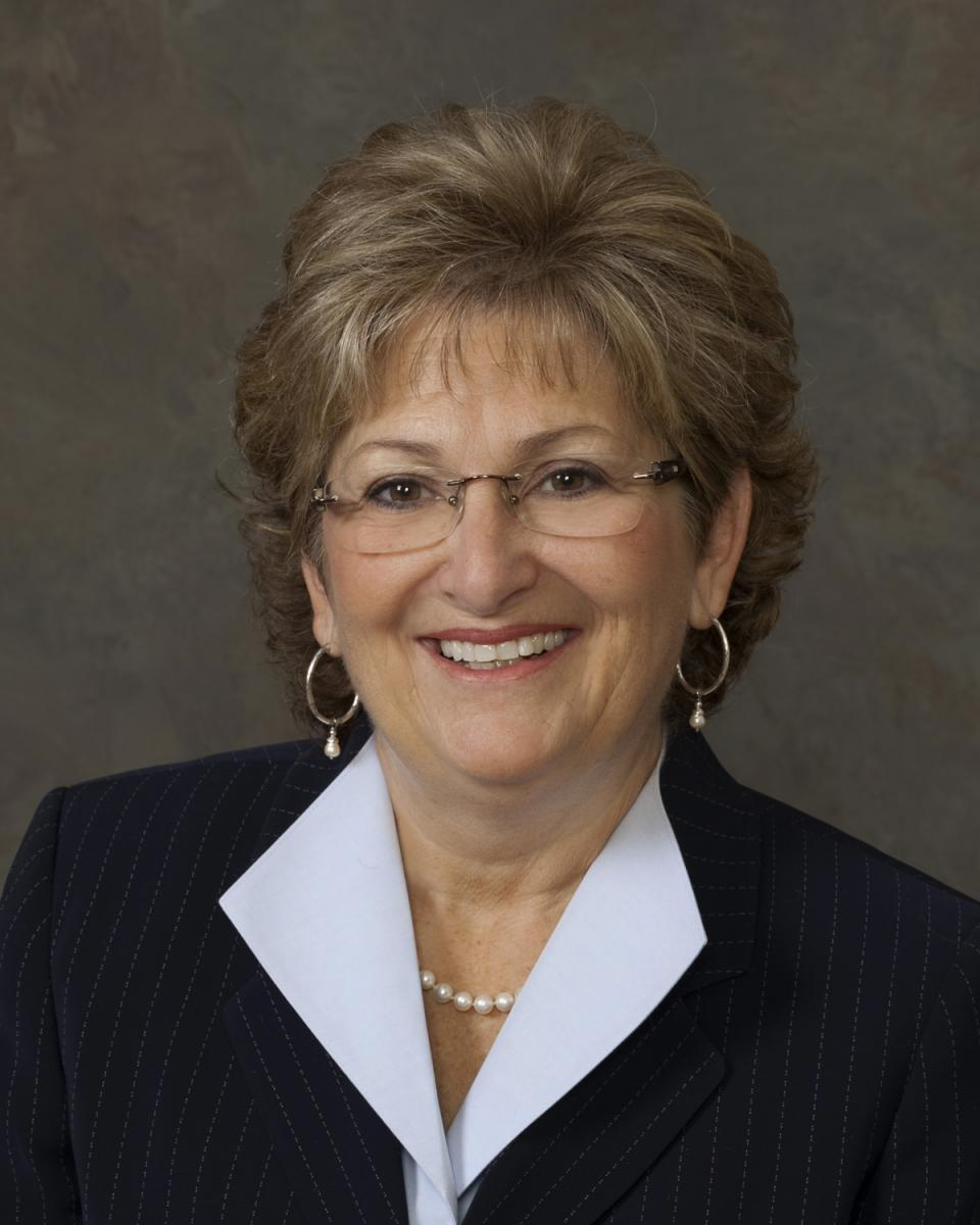 Diane Black, member of the United States House of Representatives.